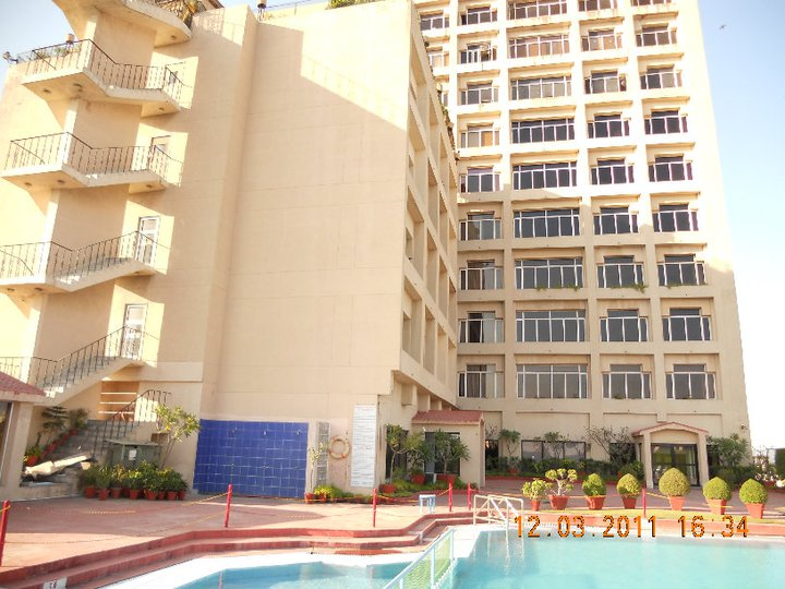 Close up photo of Landmark Hotel Kanpur